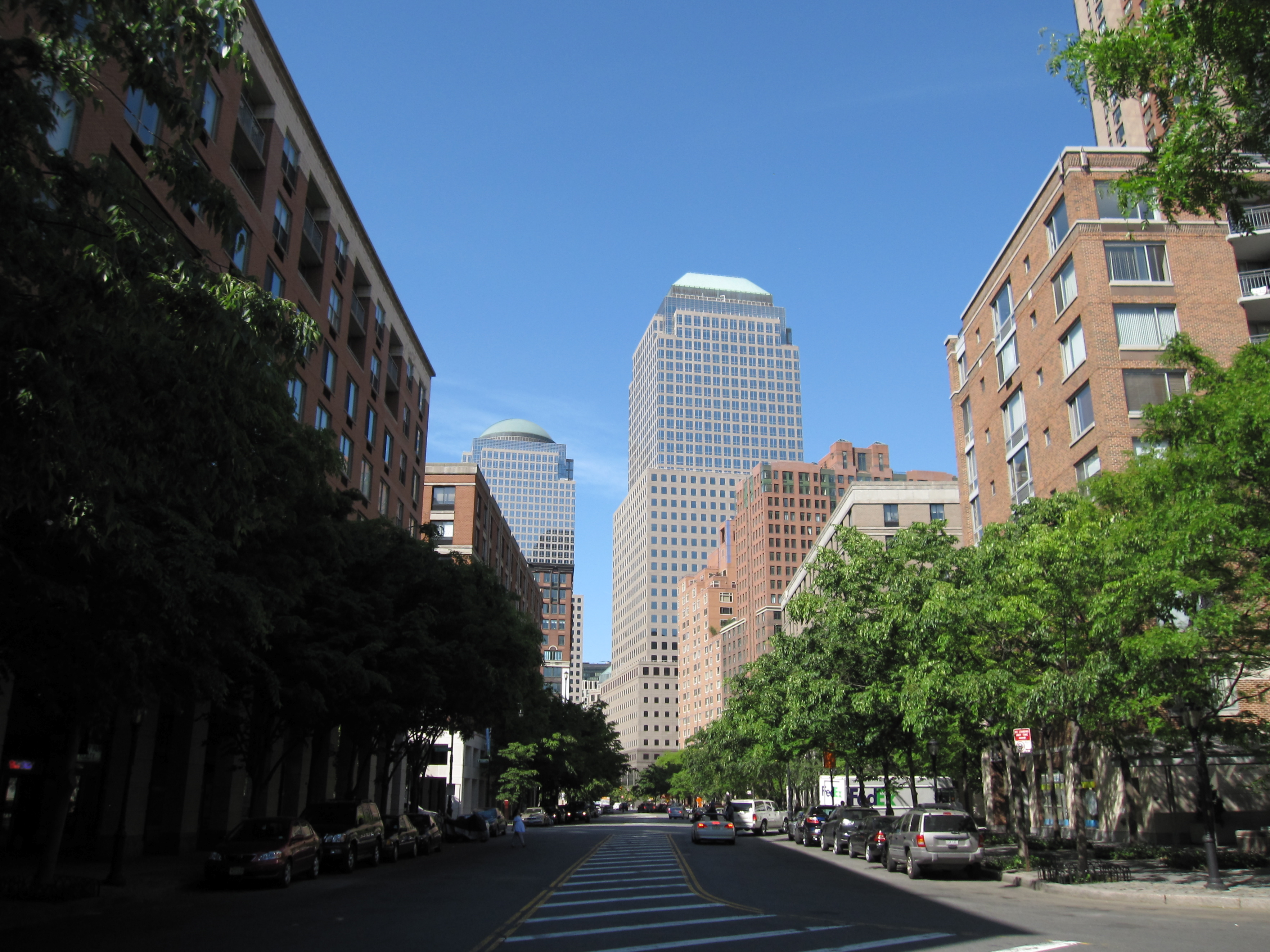 South End Avenue in Battery Park City.